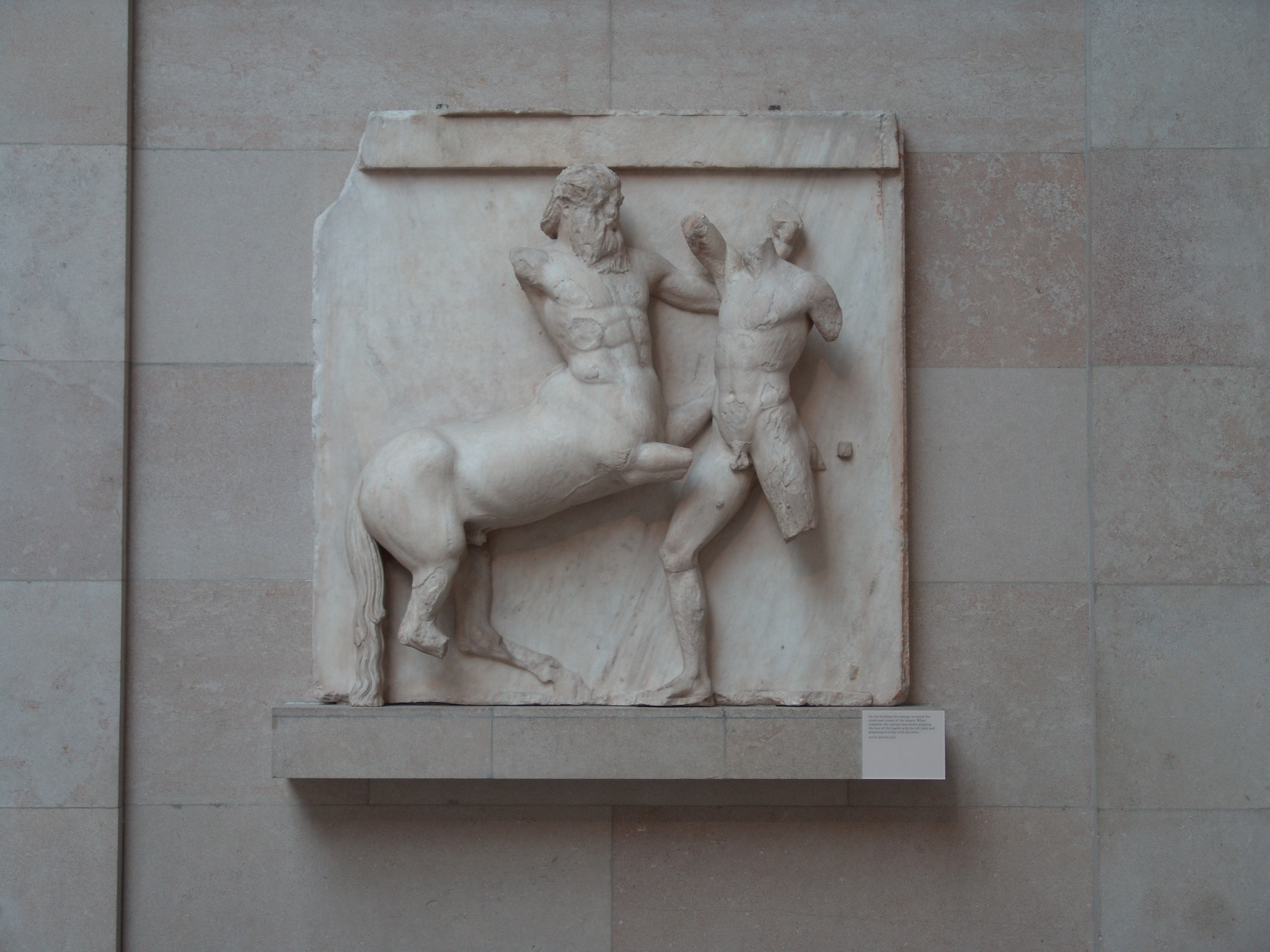 Room 18, British Museum, Metope XXXII south